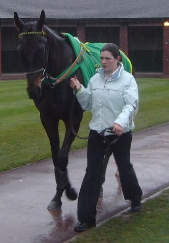 Trabolgan - Royal Sun Alliance Chase Winner in 2005.